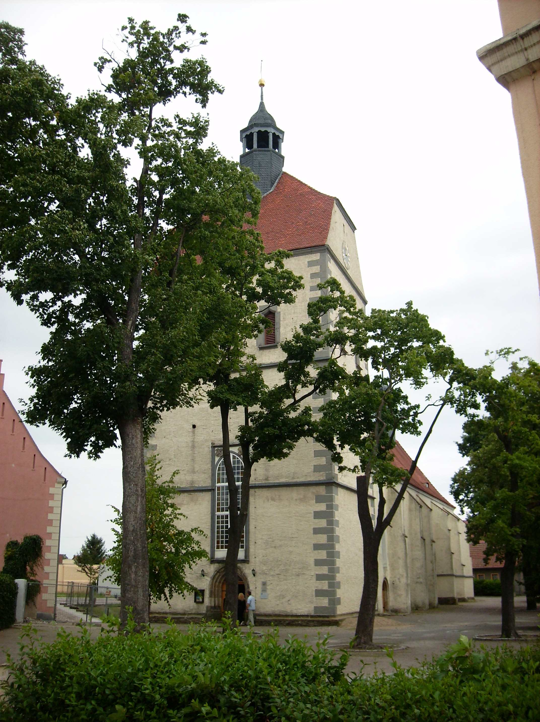 Our Lady's Church, Mühlberg/Elster (Elbe-Elster district, Brandenburg)